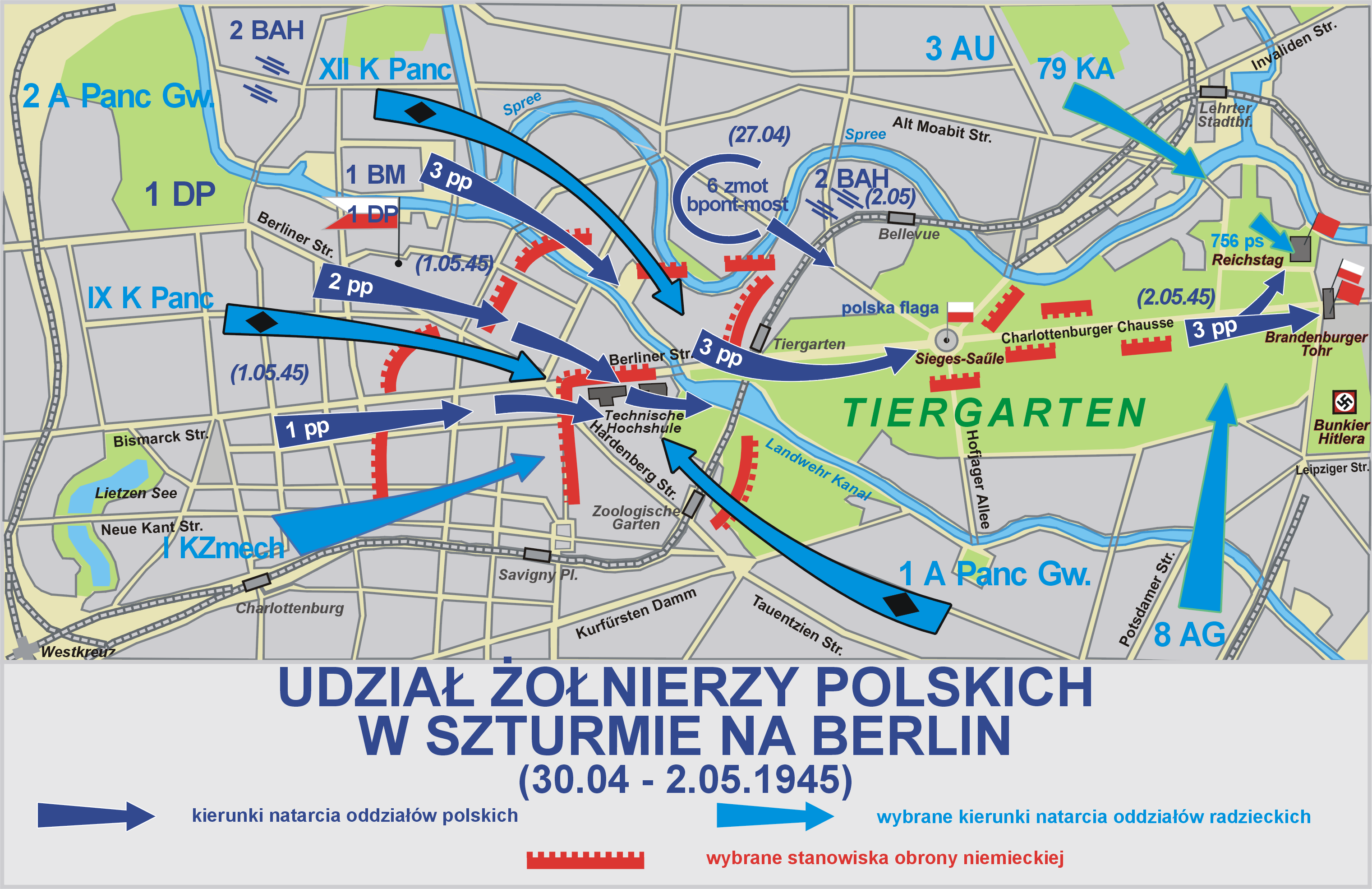 Map of the participation of Polish troops in the Battle in Berlin (30.04 - 2.05.1945). Only selected Russian advances are shown. Polish advances are dark blue, Russian are light blue.